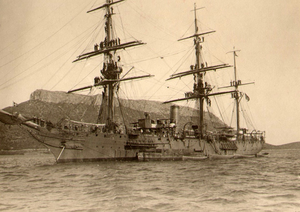 HM Ship Cristoforo Colombo. The original picture, scanned by Emiliano Burzagli, belongs to the Private archive of Burzaghi family, Italy.